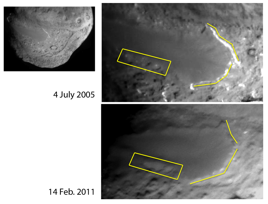 This image layout depicts changes in the surface of comet Tempel 1, observed first by NASA's Deep Impact Mission in 2005 (top right) and again by NASA's Stardust-NExT mission on Feb. 14, 2011 (bottom right). Between the two visits, the comet made one trip around the sun. The image at top left is a wider shot from Deep Impact. The smooth terrain is at a higher elevation than the more textured surface around it. Scientists think that cliffs, illustrated with yellow lines to the right, are being eroded back to the left in this view. The cliffs appear to have eroded as much as 20 to 30 meters (66 to 100 feet) in some places, since Deep Impact took the initial image. The box shows depressions that have merged together over time, also from erosion. This erosion is caused by volatile substances evaporating away from the comet. Stardust-NExT is a low-cost mission that will expand the investigation of comet Tempel 1 initiated by NASA's Deep Impact spacecraft. JPL, a division of the California Institute of Technology in Pasadena, manages Stardust-NExT for the NASA Science Mission Directorate, Washington, D.C. Joe Veverka of Cornell University, Ithaca, N.Y., is the mission's principal investigator. Lockheed Martin Space Systems, Denver, built the spacecraft and manages day-to-day mission operations. For more information about Stardust-NExT, please visit The original NASA image has been modified by addition of dates to the TIFF version and conversion to JPEG format.